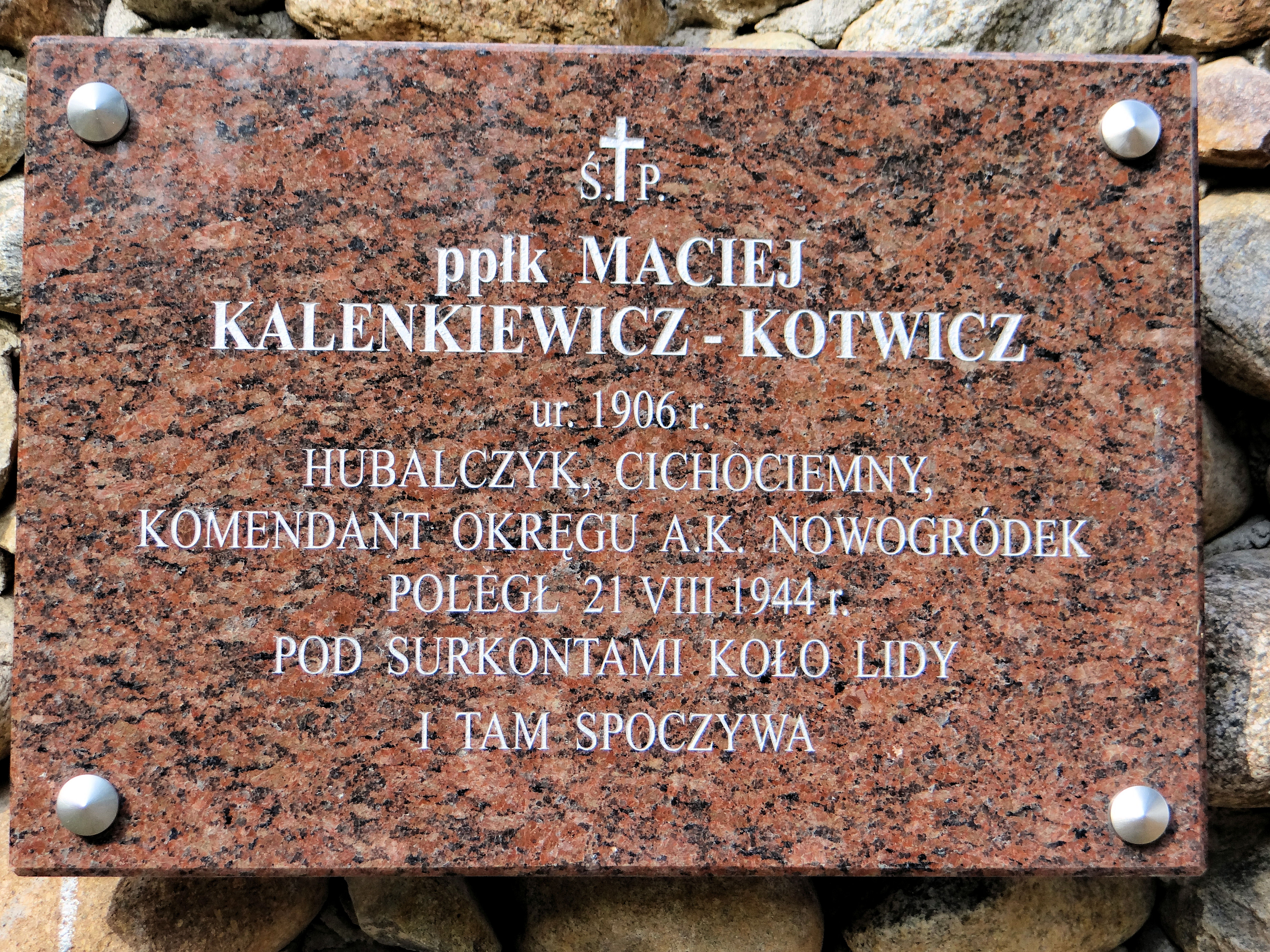 Monument commemorating Hubalczyków in Anielin (gmina Poświętne), PL - Plaque commemorating Lt.-Col. Maciej Kalenkiewicz - Kotwicz